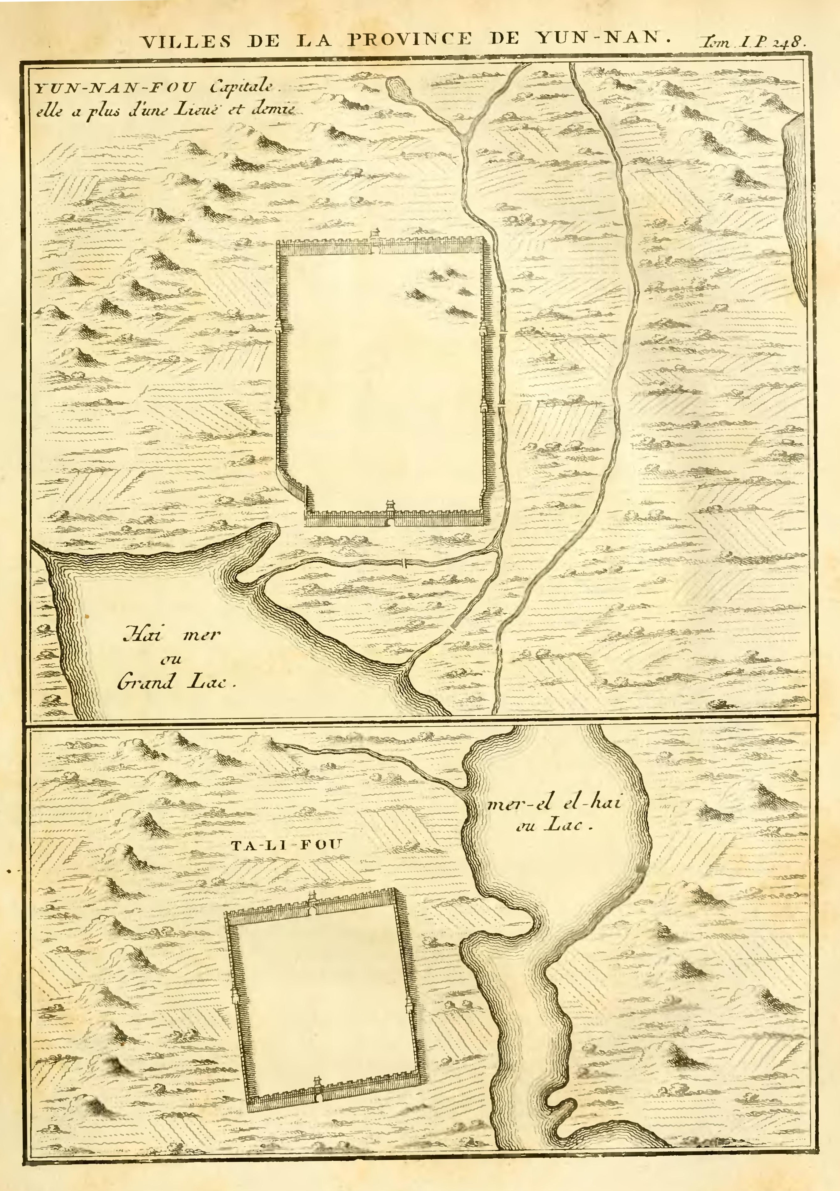 "Towns of the Province of Yunnan": maps of Yunnanfu (云南府; now Kunming) and Dalifu (大理府) from La Haye's edition of Du Halde's Description of China, Vol. I, p. 248.